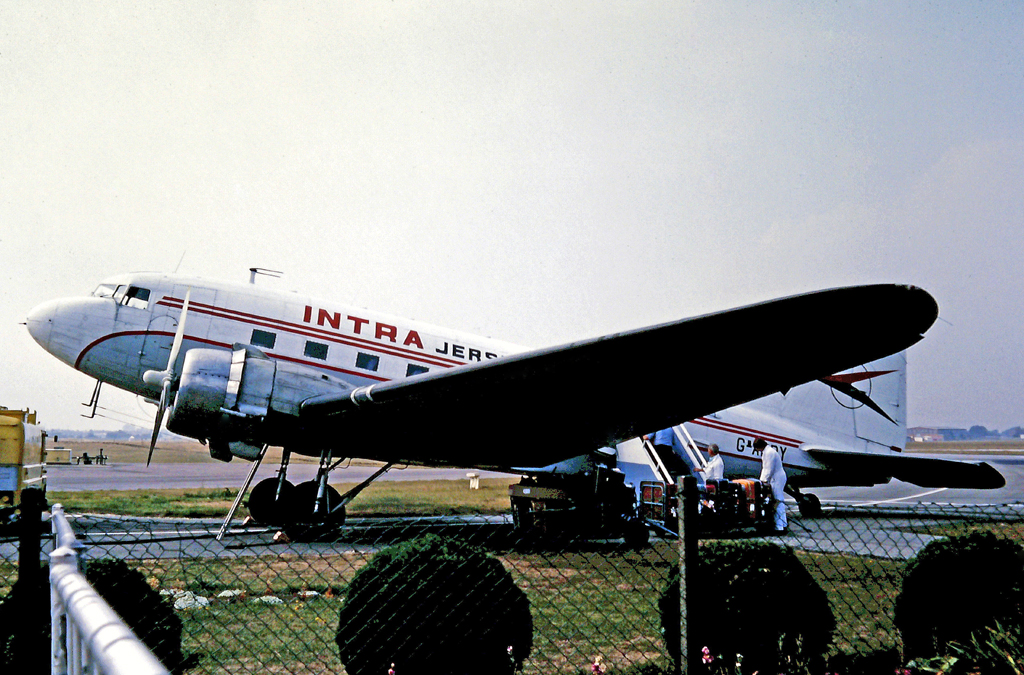 Intra Jersey Douglas C-47B (DC-3) G-AMPY at Staverton Airport Gloucester in 1976